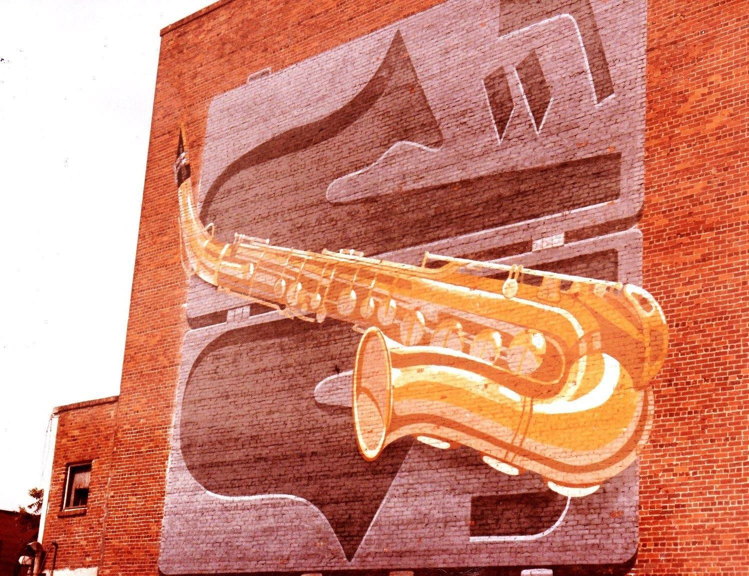 Image of mural on the west facing wall of the Beacham Theater. Photographer Don Koenig (1983)